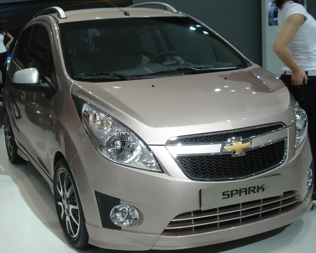 Chevrolet Spark